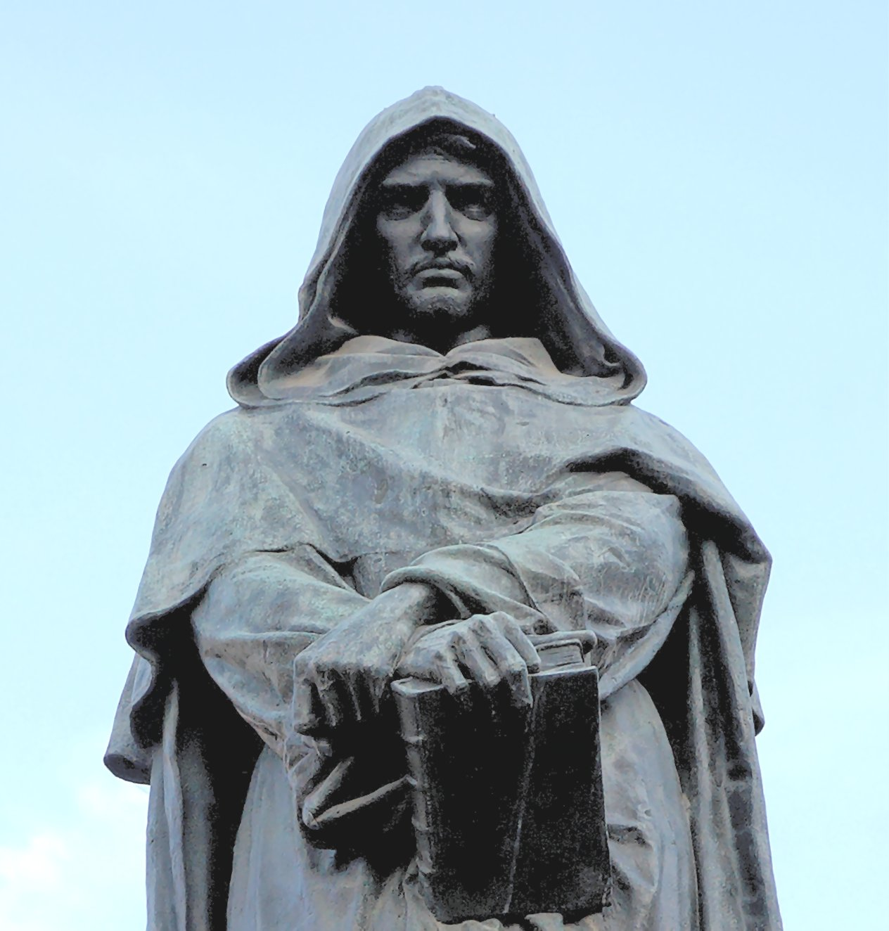 Cropped version of Giordano Bruno Campo dei Fiori.jpg